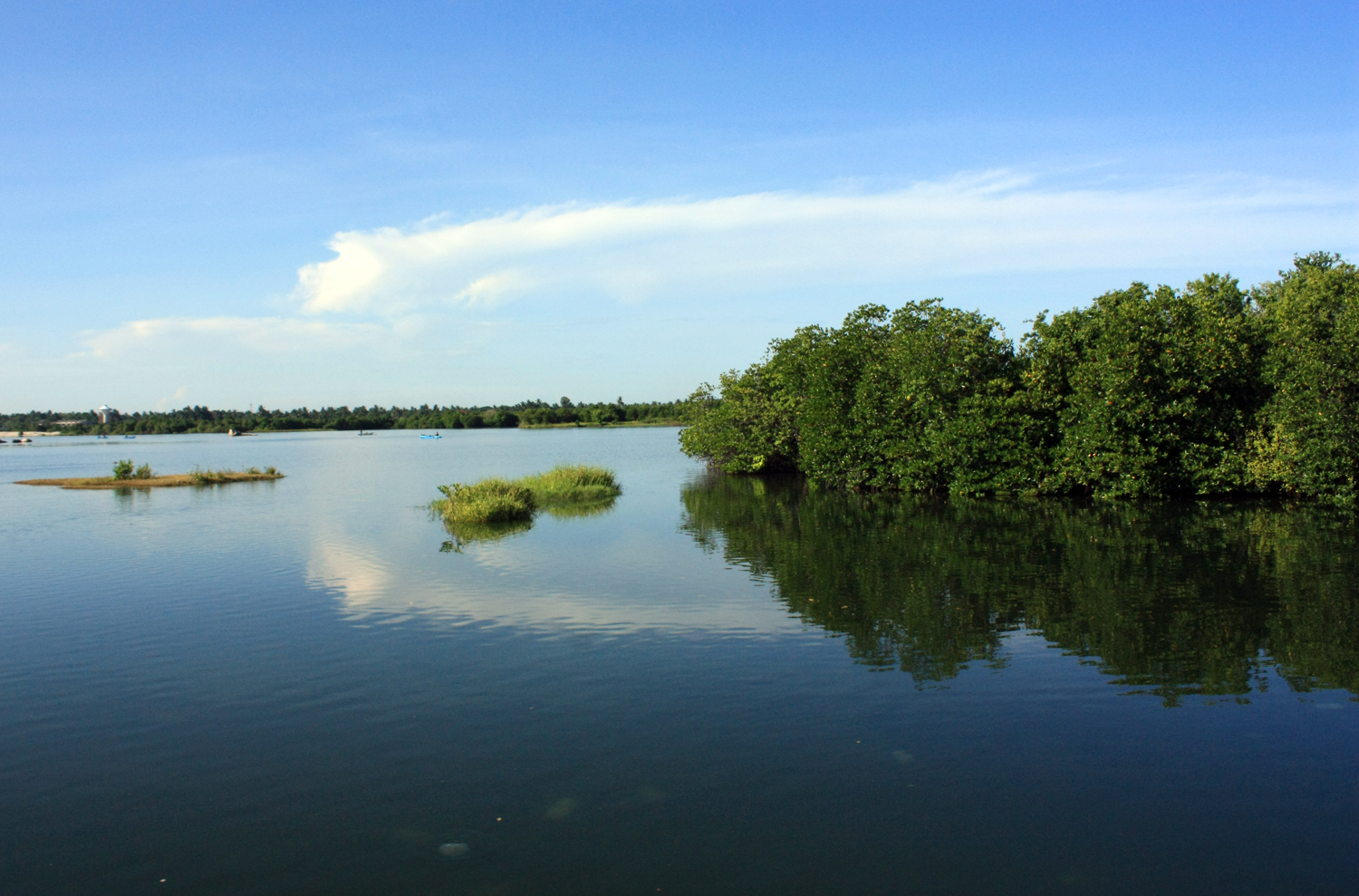 Valaichchenai Lagoon in Nasivanthivu, near Valaichchenai